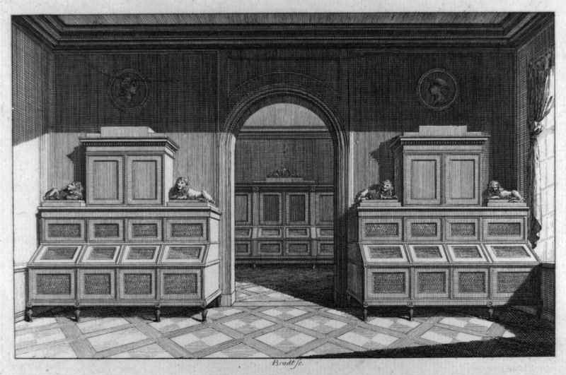 The Royal Collection of Coins and Medals at Rosenborg Castle in Copenhagen. The two oak cabinets from 1784 still exist, now at the National Museum.